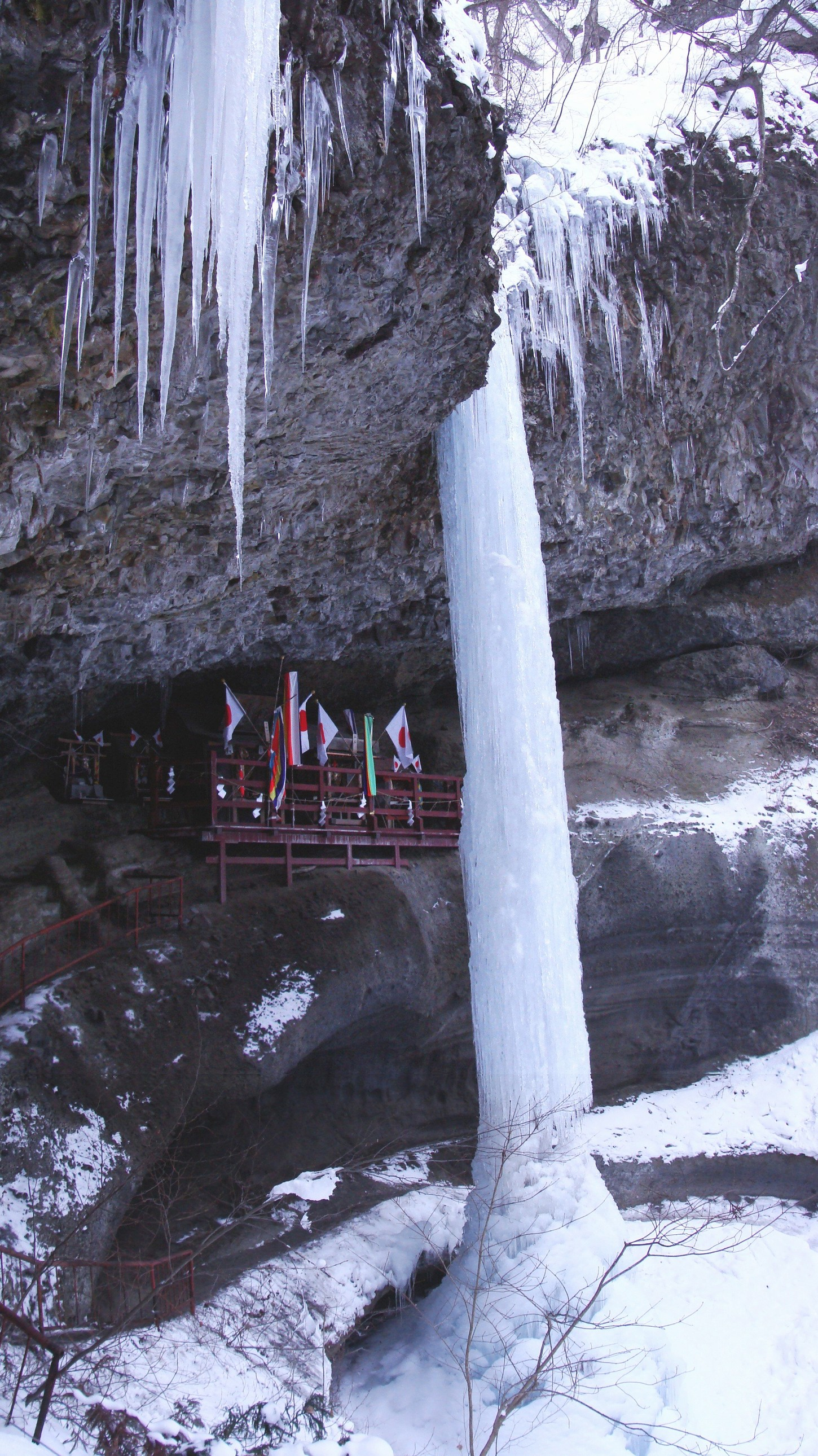 Waterfall of NIOGATAKI （Pillar of ice of 33 meters in length）